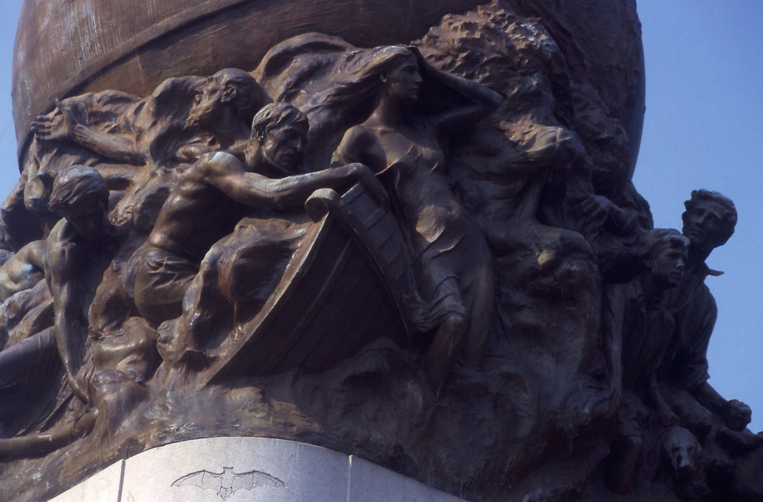 Photo by Einar Einarsson Kvaran of Monument Avenue Richmond, Virginia